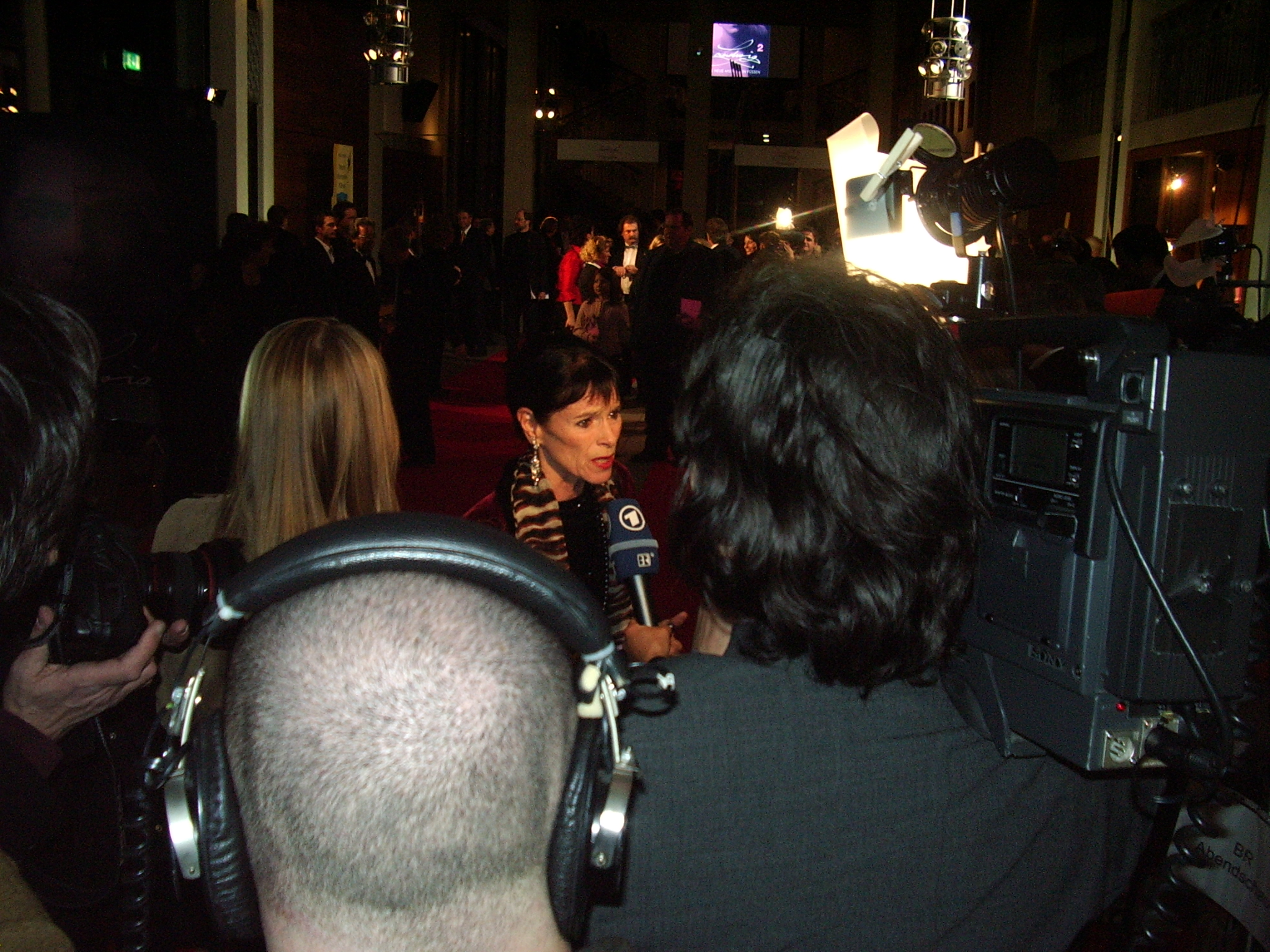 Geraldine Chaplin in Fuessen Germany Opening Night of Musical Ludwig², 2004